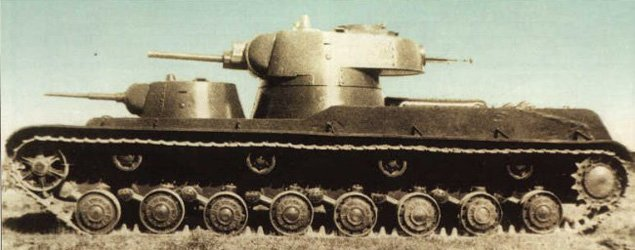 photography profile smk